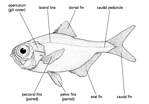 Anatomy of a splendid alfonsino, Beryx splendens